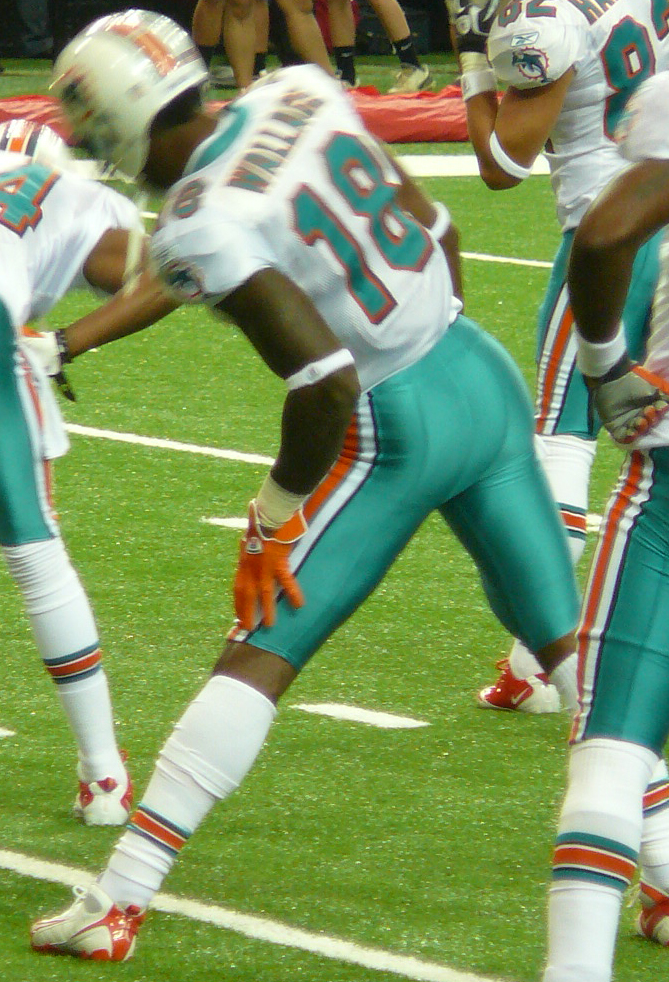 If used somewhere other than Wikipedia, Nelson, by name.